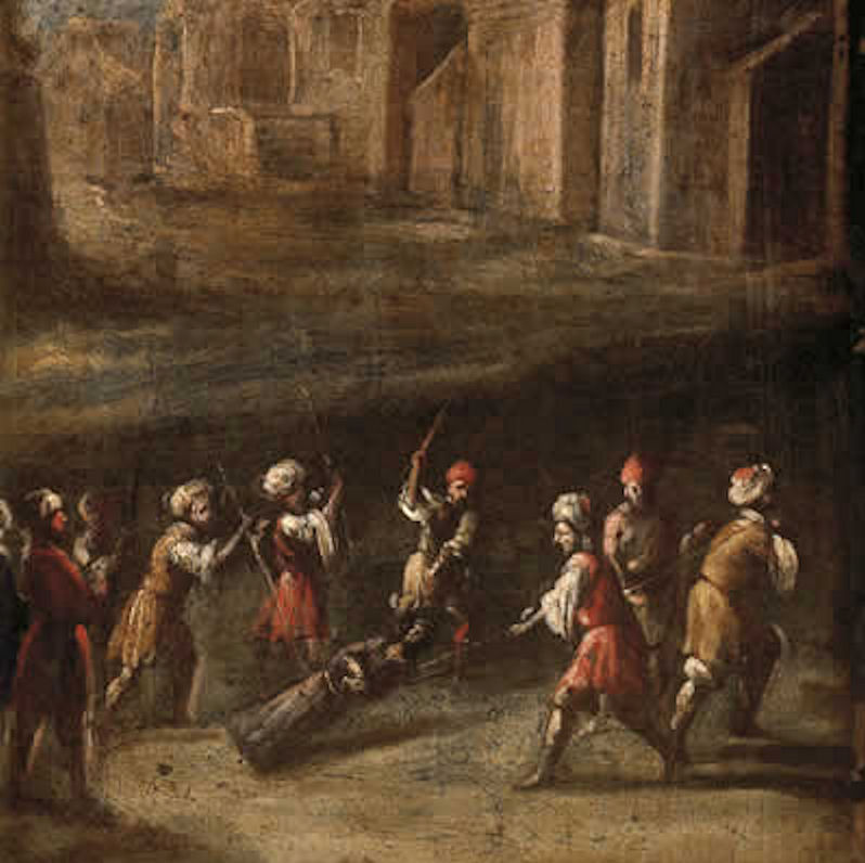 The_Christ_of_Medinaceli_being_pulled_through_the_streets_of_Meknes_Juan_de_VALDES_LEAL_1681.